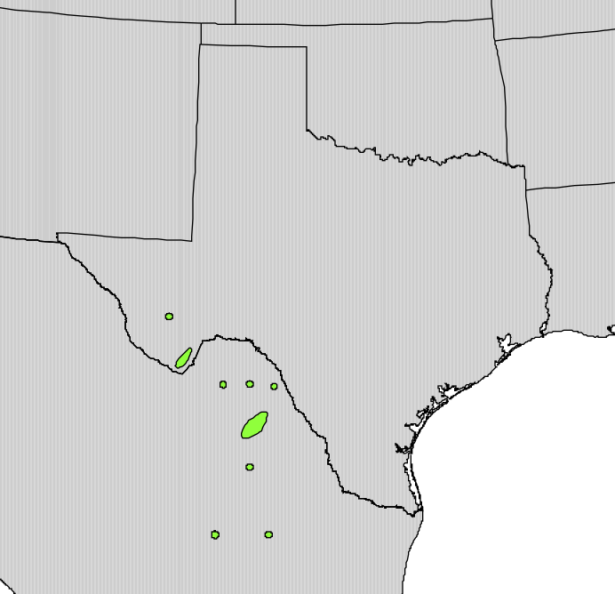 Range map of Yucca rostrata